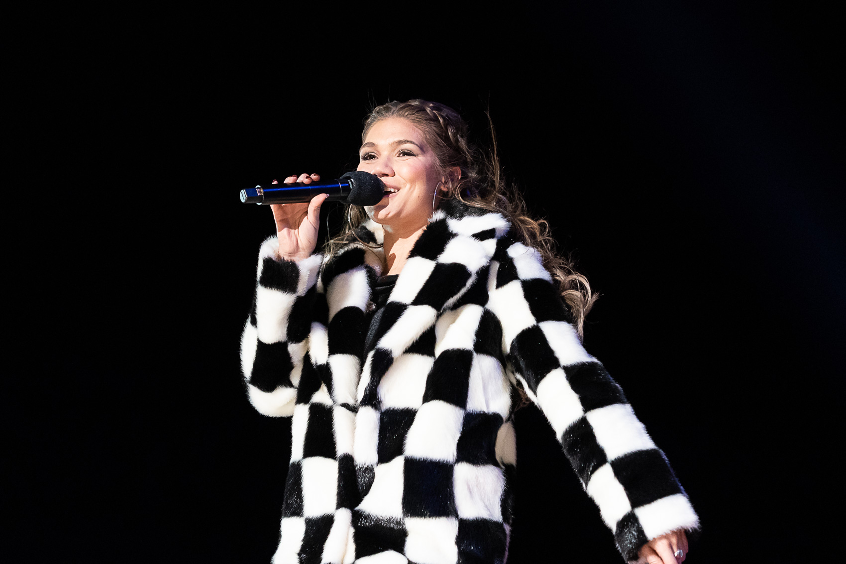 Abby Anderson performs at the Lighting of the National Christmas Tree Wednesday, Nov. 28, 2018, on the Ellipse in Washington, D.C. (Official White House Photo by Andrea Hanks)